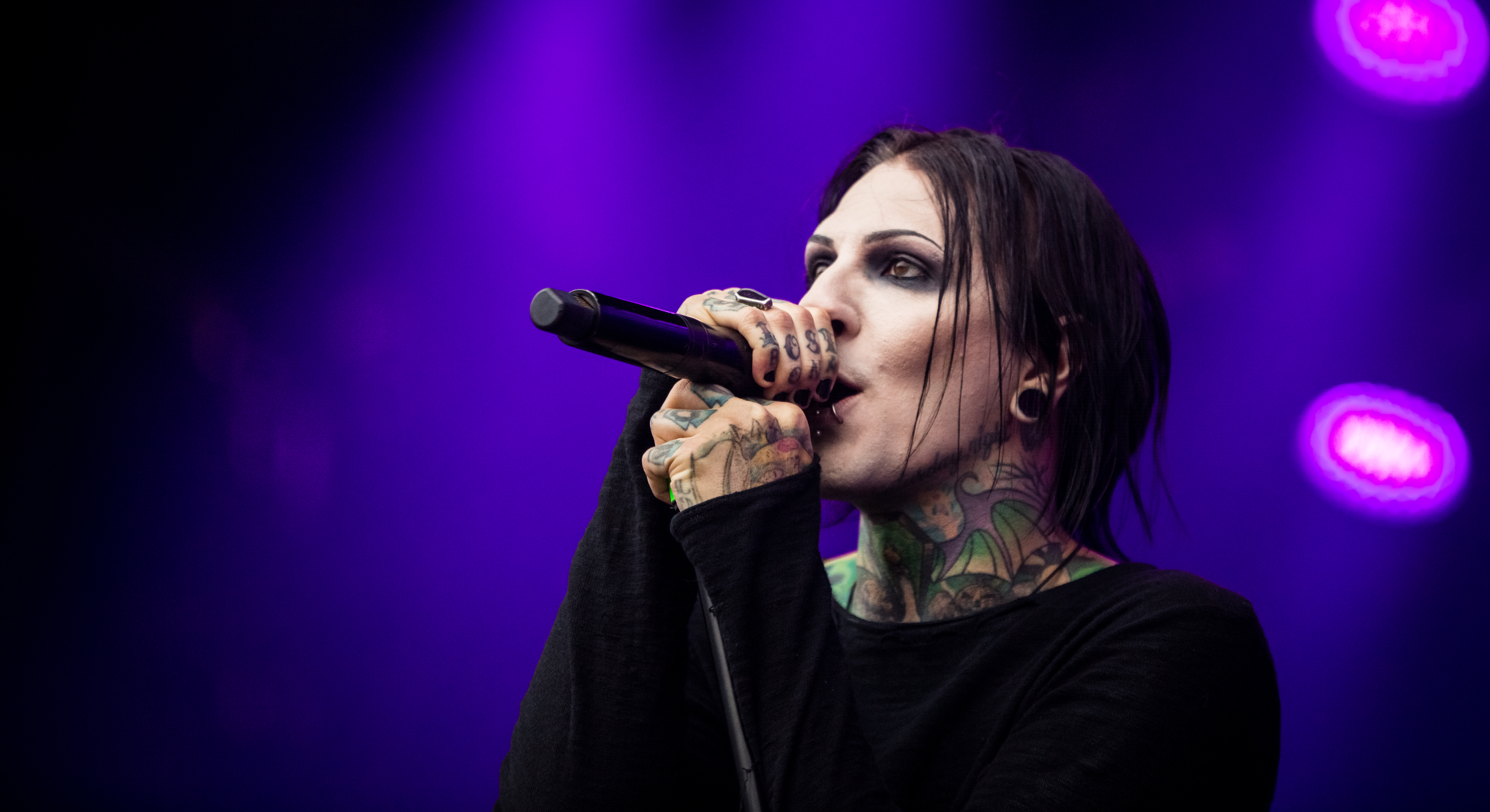 Motionless in White - Rock am Ring 2017